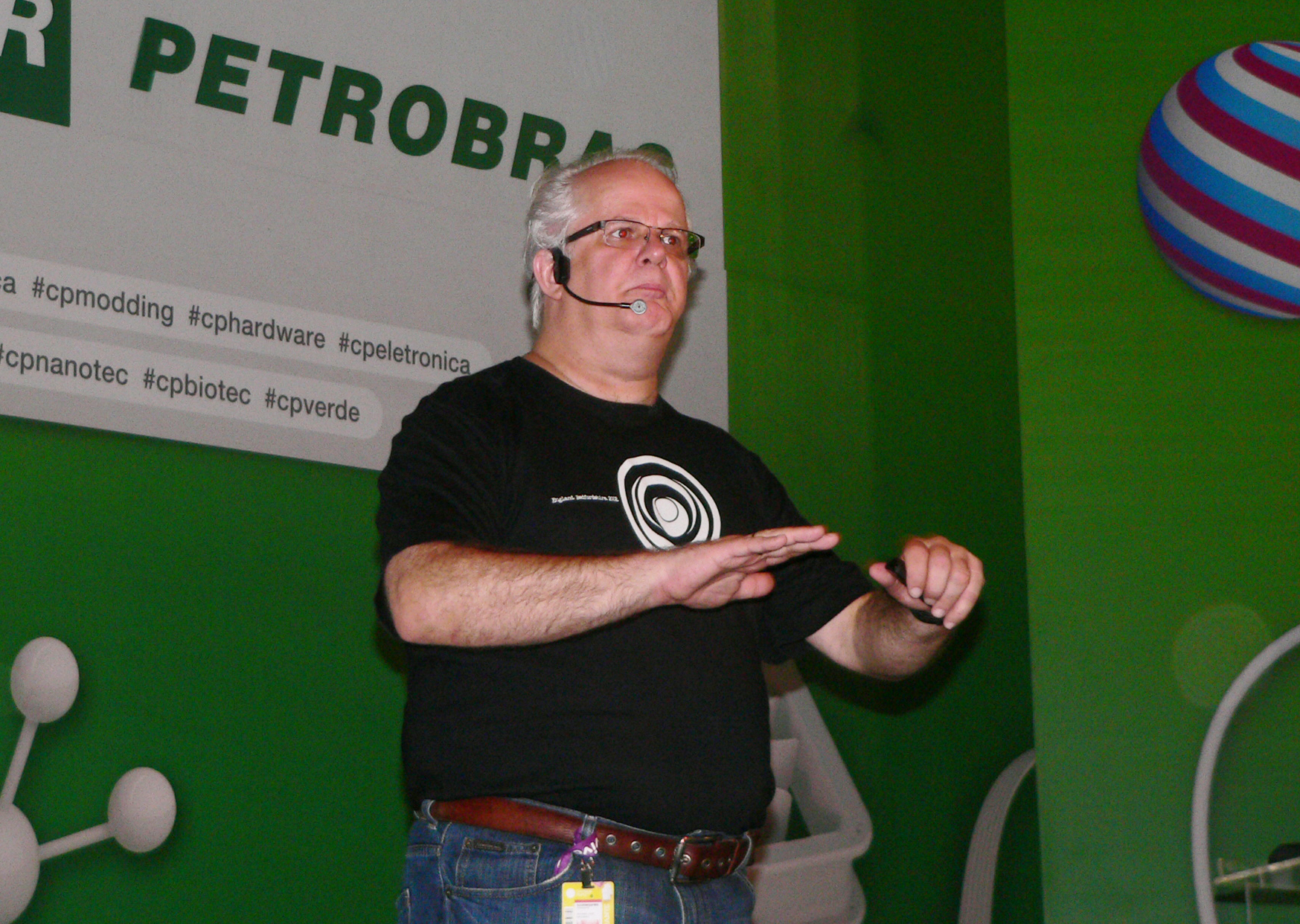 Brazilian uphologist Ademar José Gevaerd conducting a lecture about Crop Circles at the 6th edition of Campus Party Brasil.